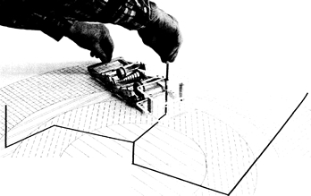 Photograph of the the FERMIAC, or Monte Carlo trolley, an analog device invented by Enrico Fermi to implement studies of neutron transport.